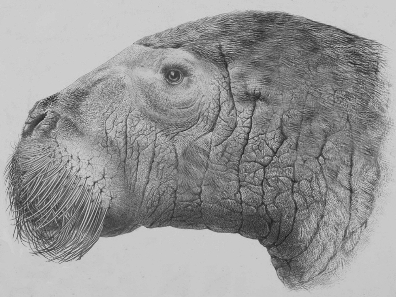 Reconstruction of Aivukus cedrosensis exterior based on Iconographia Zoologica image of Trichechus rosmarus.